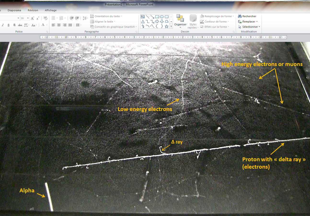 This rare picture show the 4 type of charged particles that we can detect in a cloud chamber : alpha, proton, electron and muons (probably). Picture taken at the Pic duMidi at 2877 m in a Phywe PJ45 diffusion cloud chamber